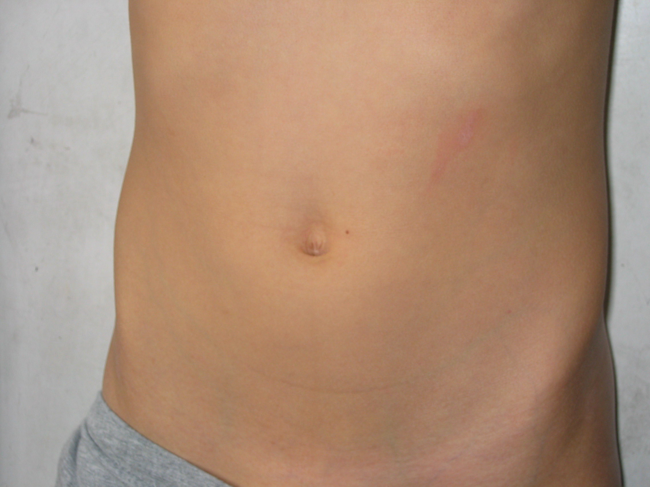 This is my belly button, ten years old, male, and about 30kg heavy. Hong Kong, Chinese ancestry.